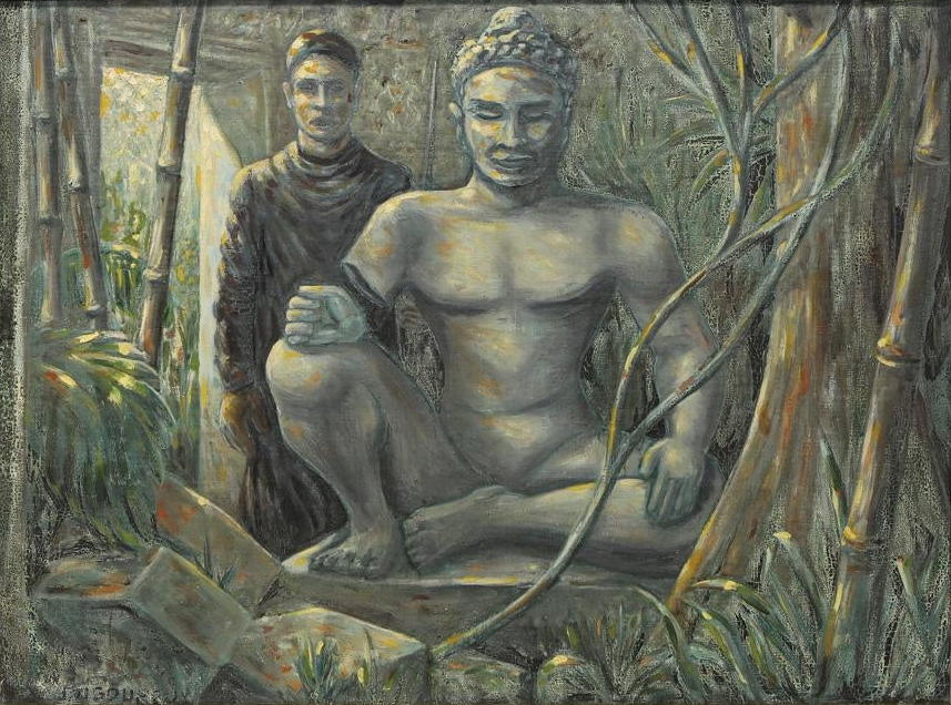 Jean Vigoureux (1907-1983), untitled painting of seated Buddha, c.1938, inspired by his two years in French Indochina.